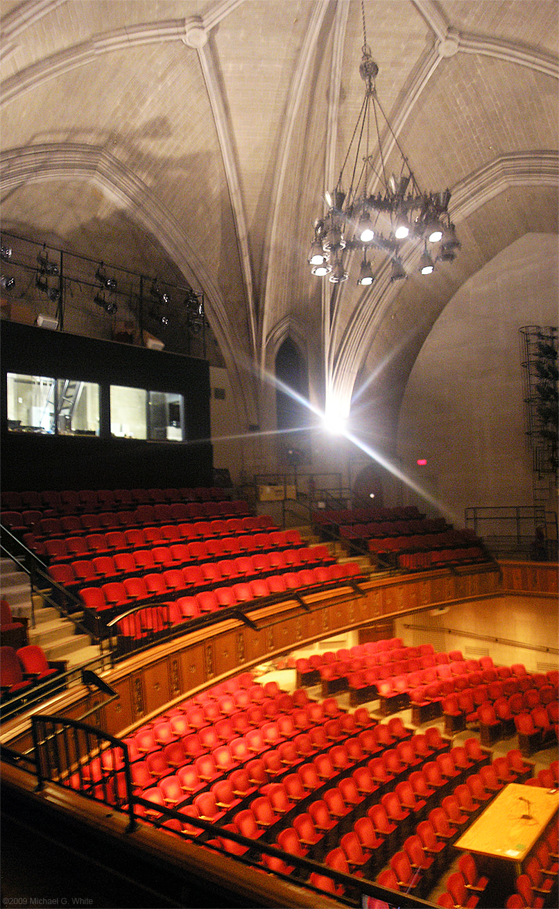 The Charity Randall Theatre in the Stephen Foster Memorial at the University of Pittsburgh. Vertical panorama composed from multiple photos.